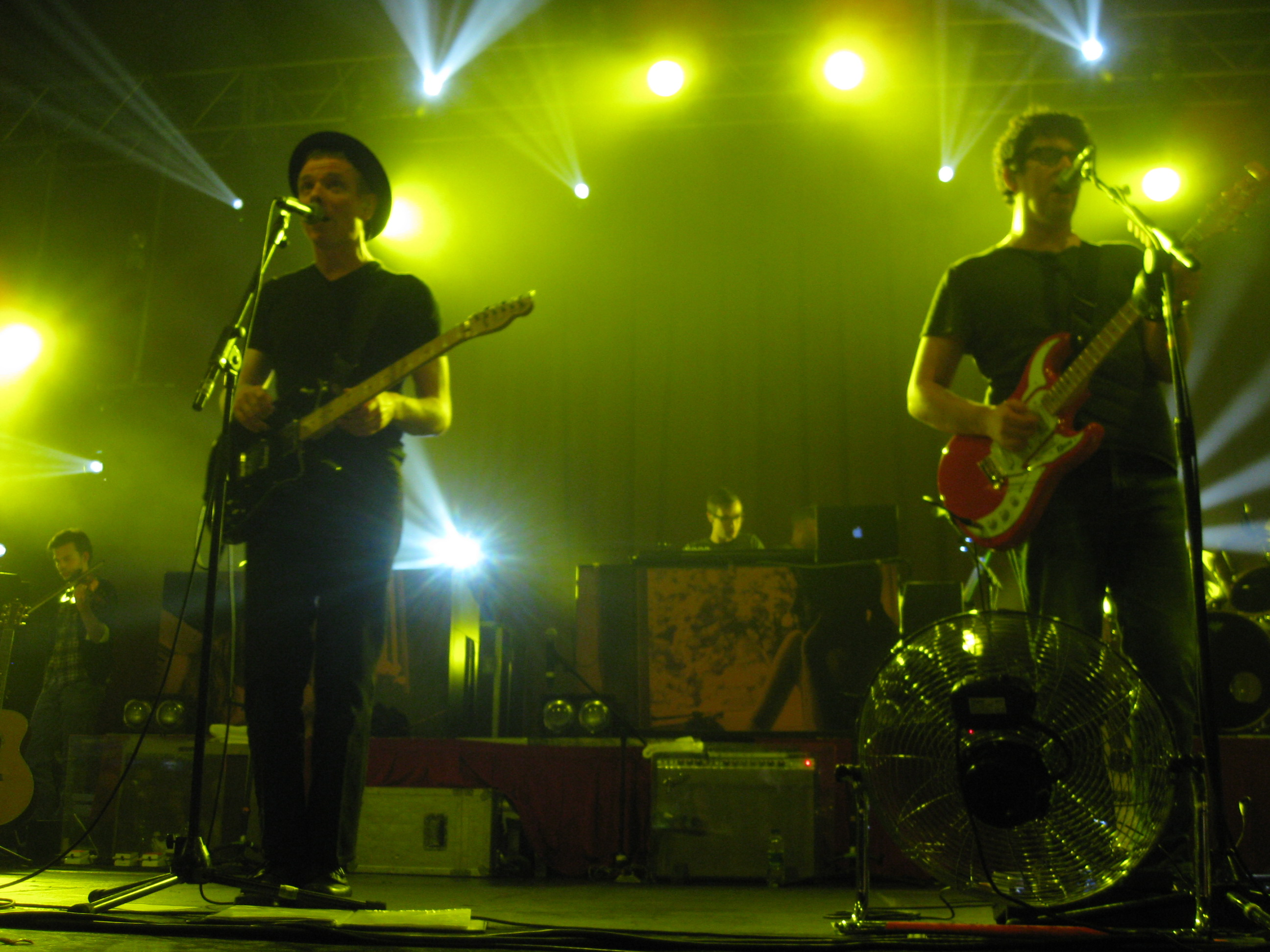 Columbiahalle / Berlin / 6th April 2011